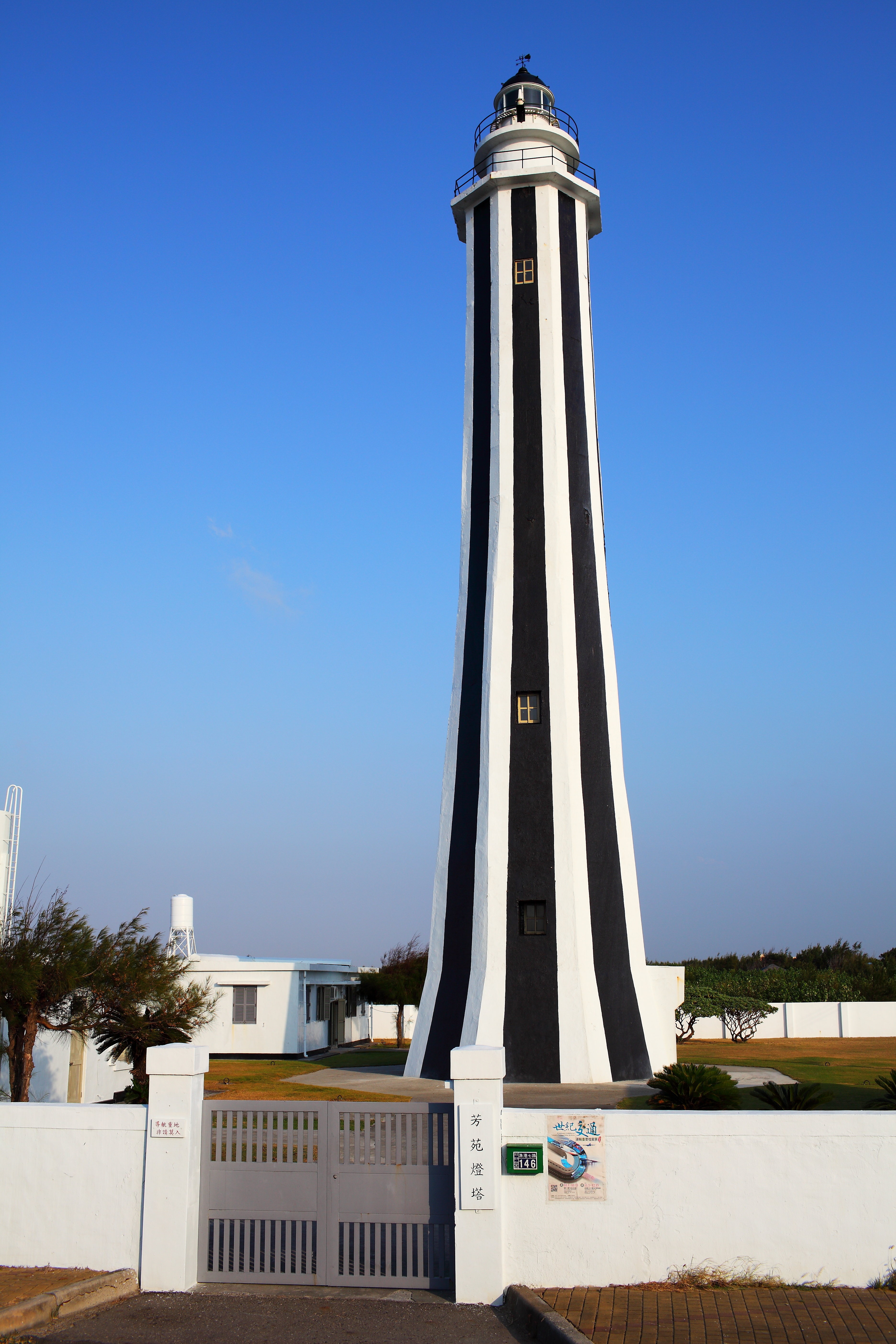 The Fangyuan Lighthouse was established in 1983, located at Wang-Kung port, Fongyuan Township, Changhua County. It is an octagonal tower with black and white vertical bands. Not only is the latest built lighthouse, but also the only tower height is higher than the lens height due to the land subsidence. This place was used to be famous for the one of eight scenic views in Changhua – Wang-Kung Fishermen’s Lights.